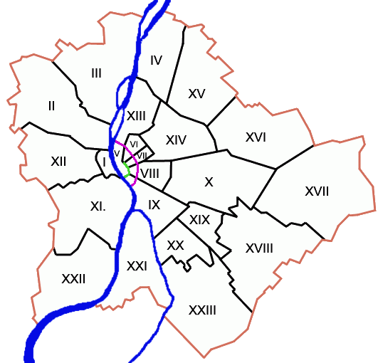 The Grand and Small Boulevard of Budapest. Created from Image:Budapest districts.png